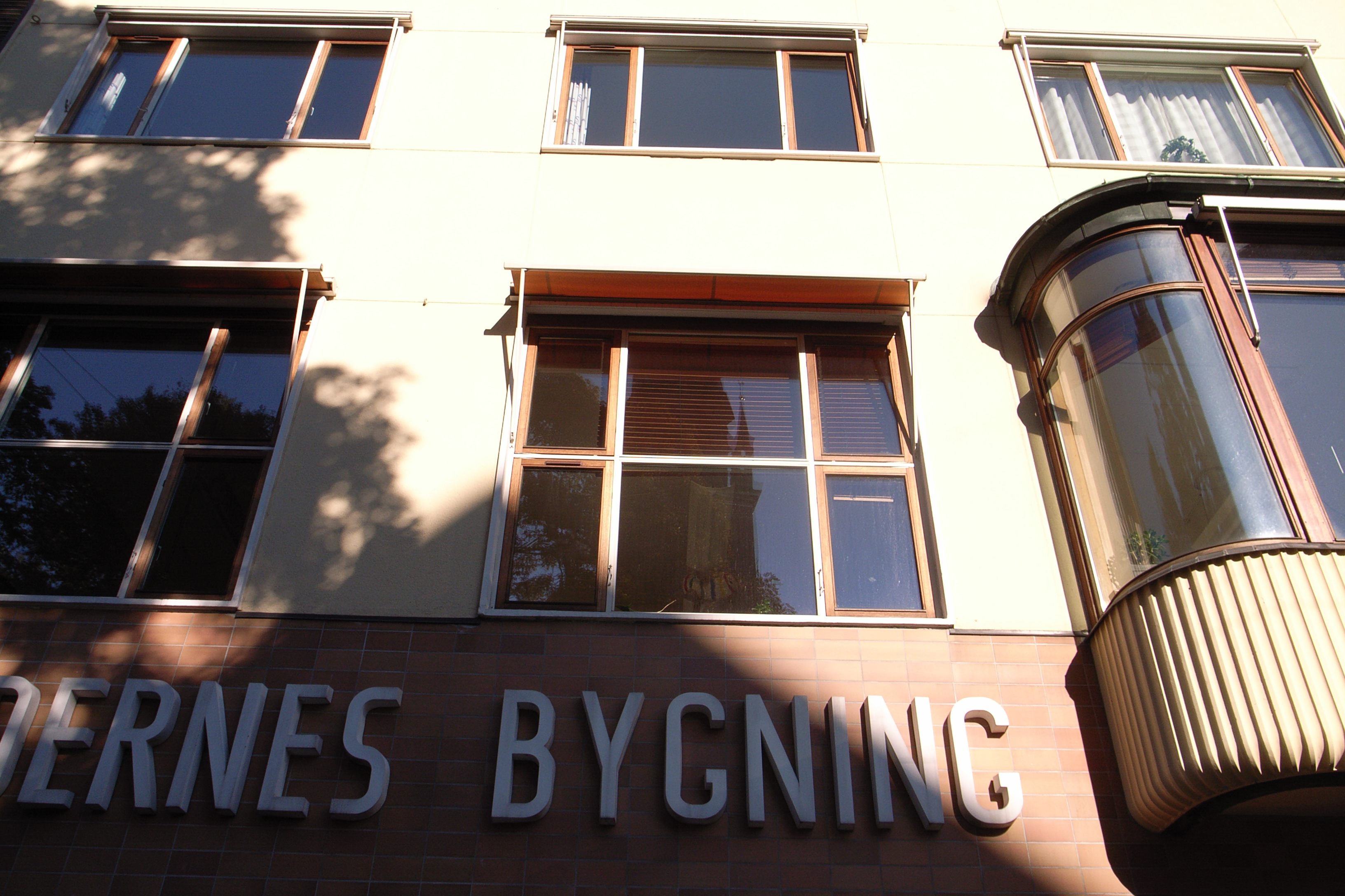 Kvindernes Bygning (The Women's Building), Copenhagen, Denmark designed by Ragna Grubb in 1935.